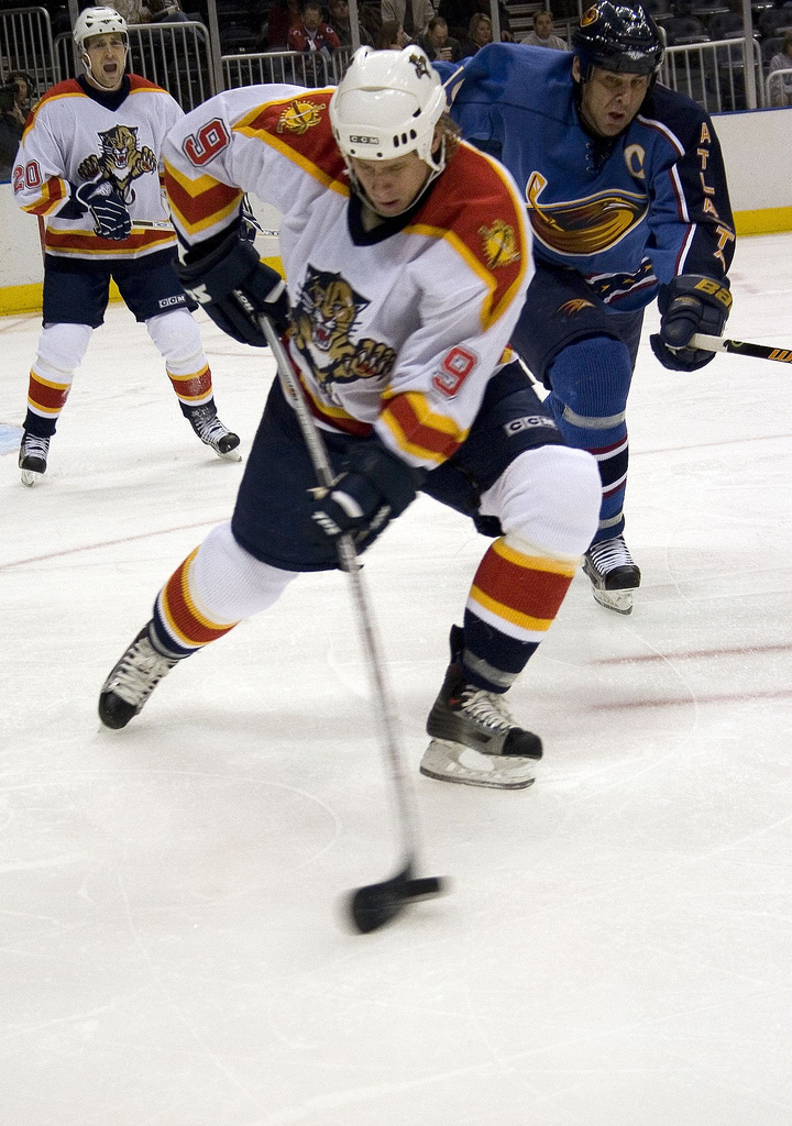 Stephen Weiss , Florida Panthers ice hockey forward vs. Scott Mellanby of the Atlanta Thrashers